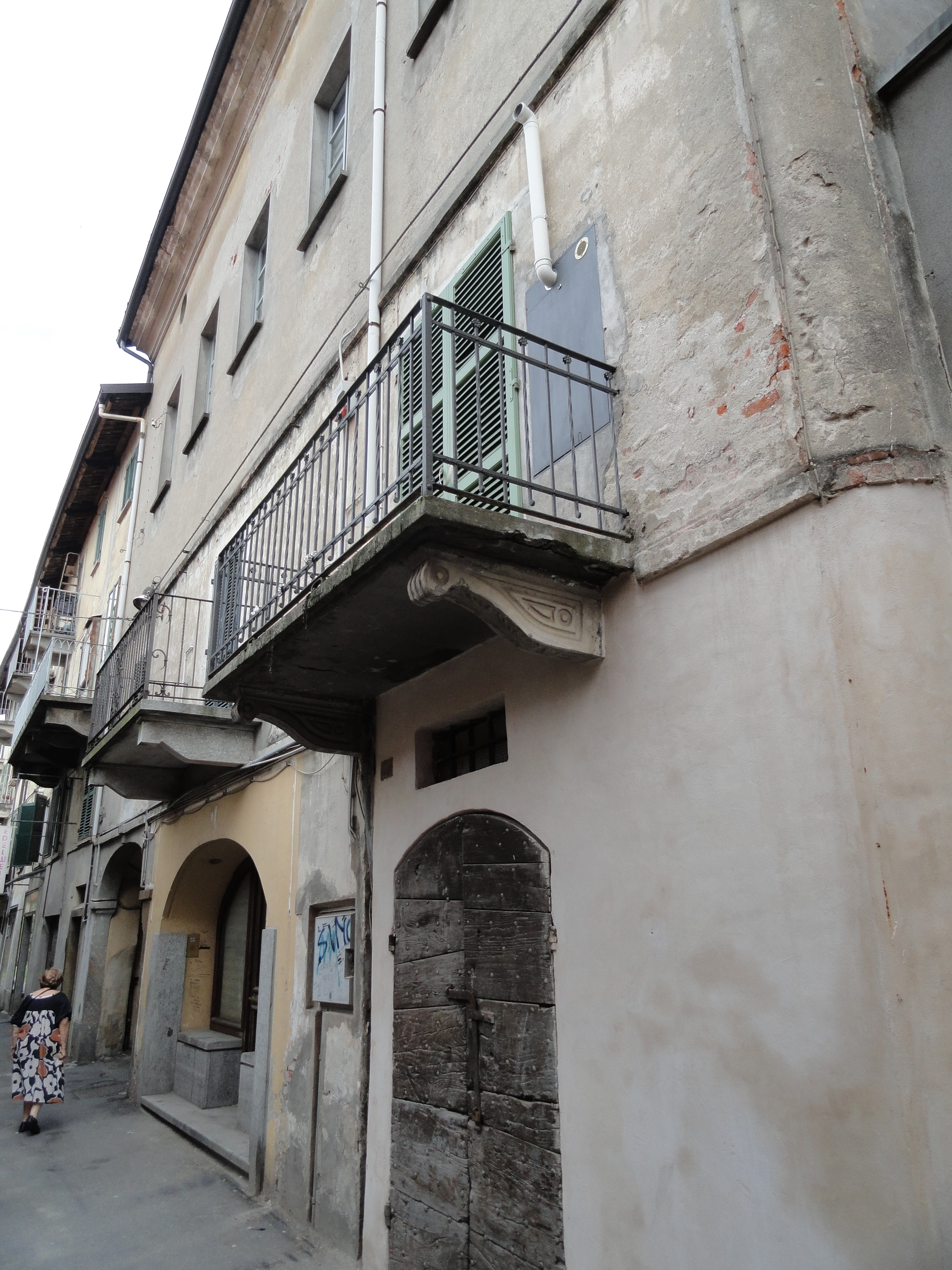 Synagogue of Saluzzo (Italy) - external view. The synagogue is on the 3rd floor